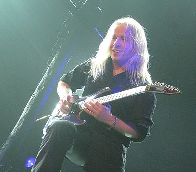 Erno Vuorinen "Emppu" at the Zenith of Paris with Nightwish on 24 March 2009